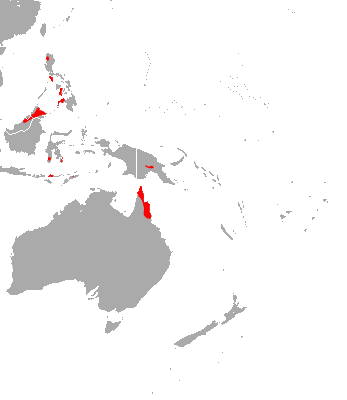 Large-eared Horseshoe Bat (Rhinolophus philippinensis) range